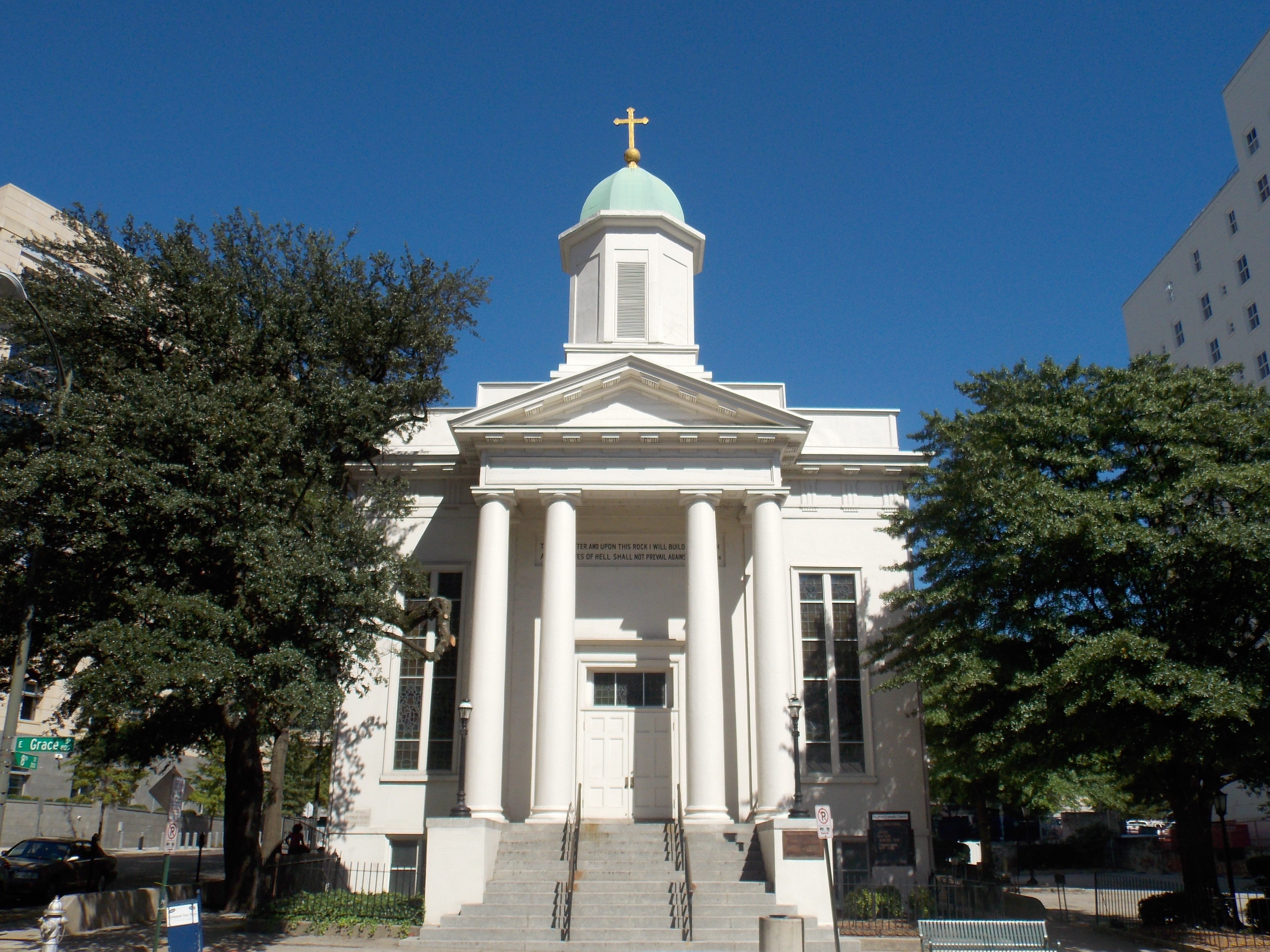 St. Peter's Catholic Church in Richmond, Virginia.